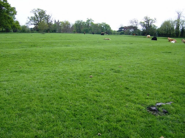 Approaching Canons Ashby